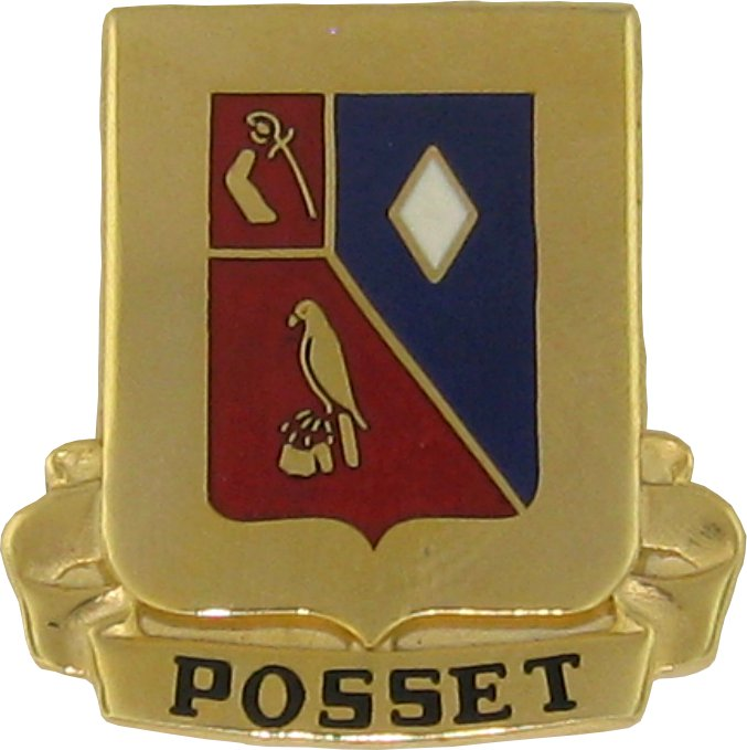 Distinctive Unit Insignia of the 164th Transportation Battalion, ARNG (MA)